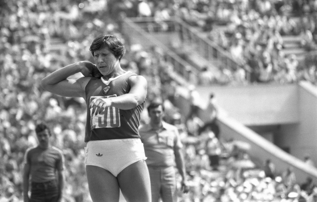 “1980 Summer Olympics Champion Nadezhda Tkachenko”. 1980 Summer Olympics Champion Nadezhda Tkachenko ( Women's Pentathlon, 16 m 84 cm) during a shot-put tournament at Moscow's Lenin Stadium.